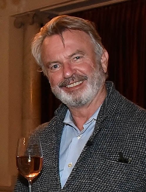 Whetu Fala (Shortland Street) and Sam Neill